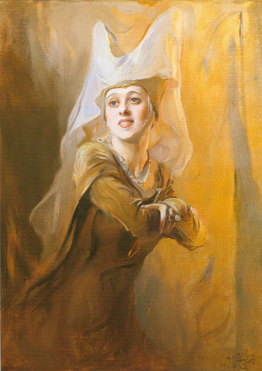 Portrait of Gwen Ffrangcon Davies (1891–1992), British Actress, Oil on canvas, 43 x 30½ inches